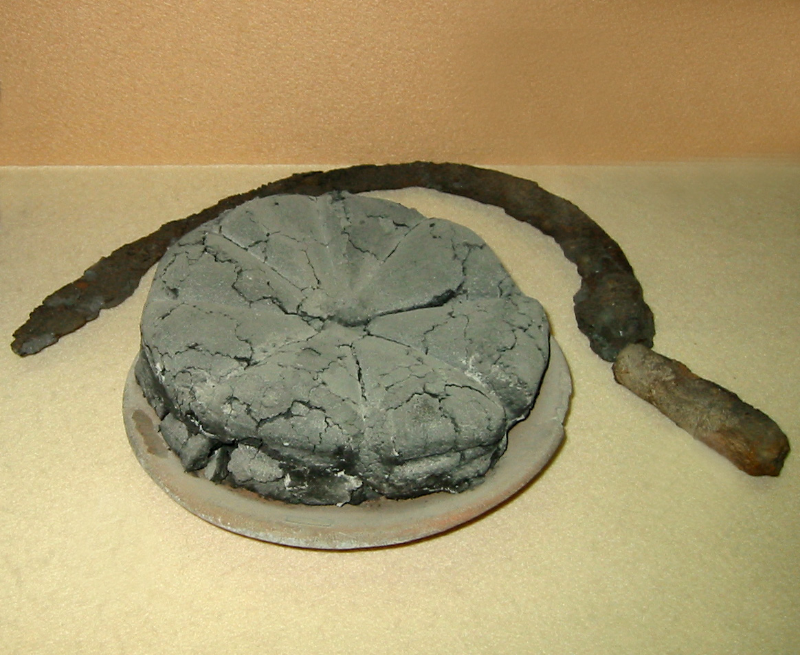 Bread and sickle in the museum at Boscoreale in Italy. Both items were buried under ash and pumice by the eruption of mount Vesuvius in AD 79.